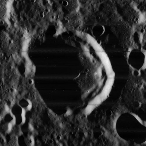 Ellison, on the far side of the moon (north at top).